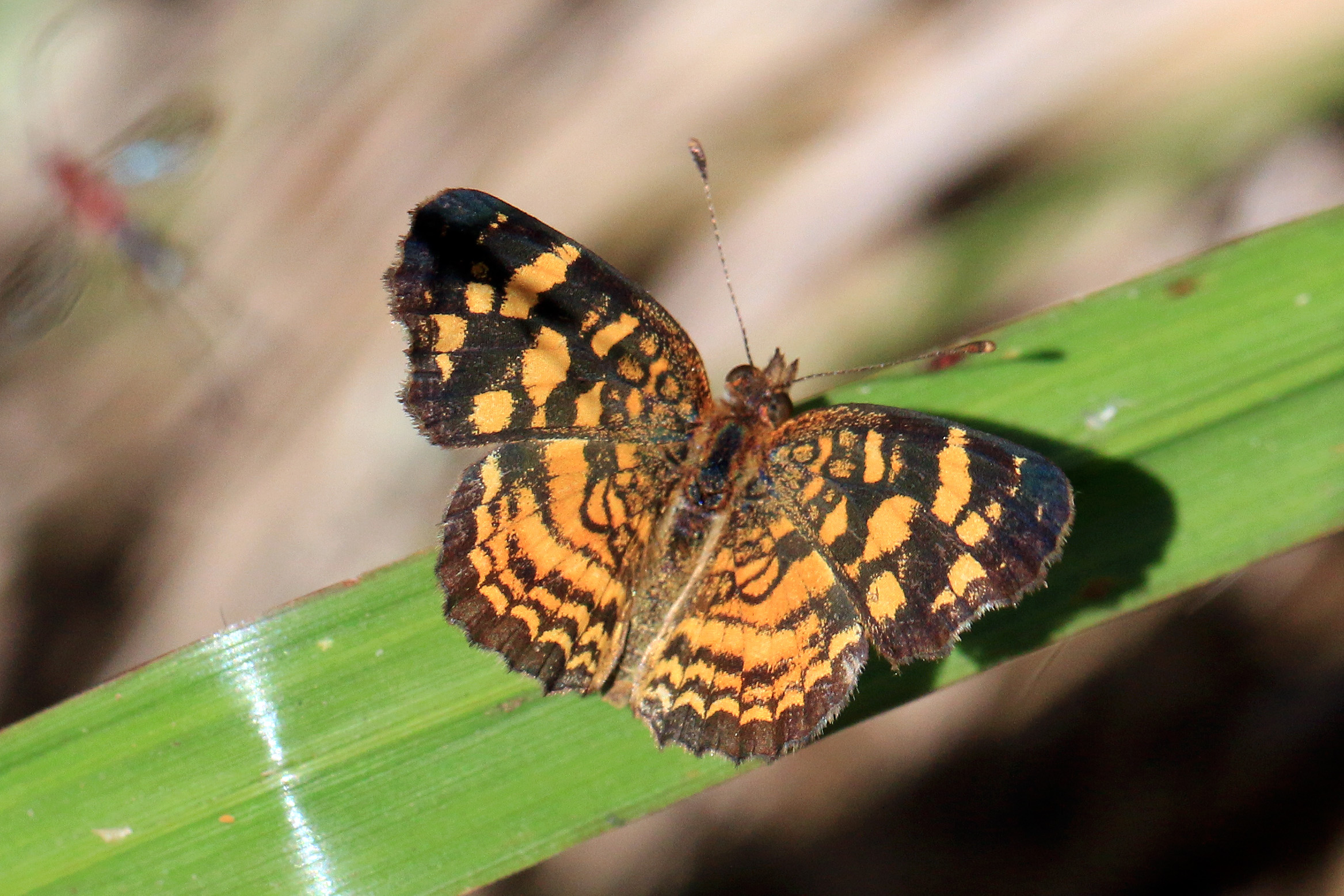 Cuban crescent (Anthanassa frisia frisia), Cuba